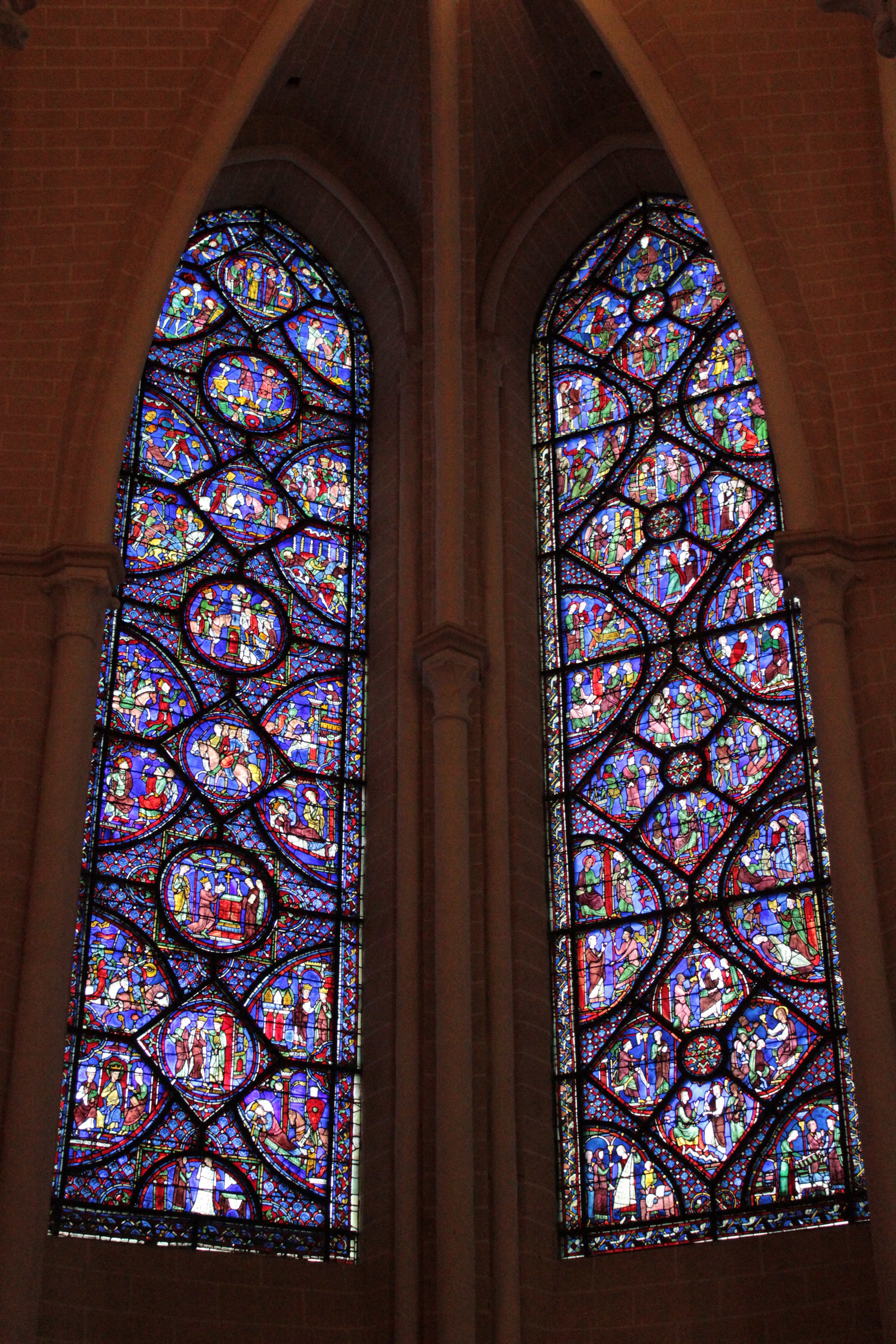 Stained-glass windows of Chartres